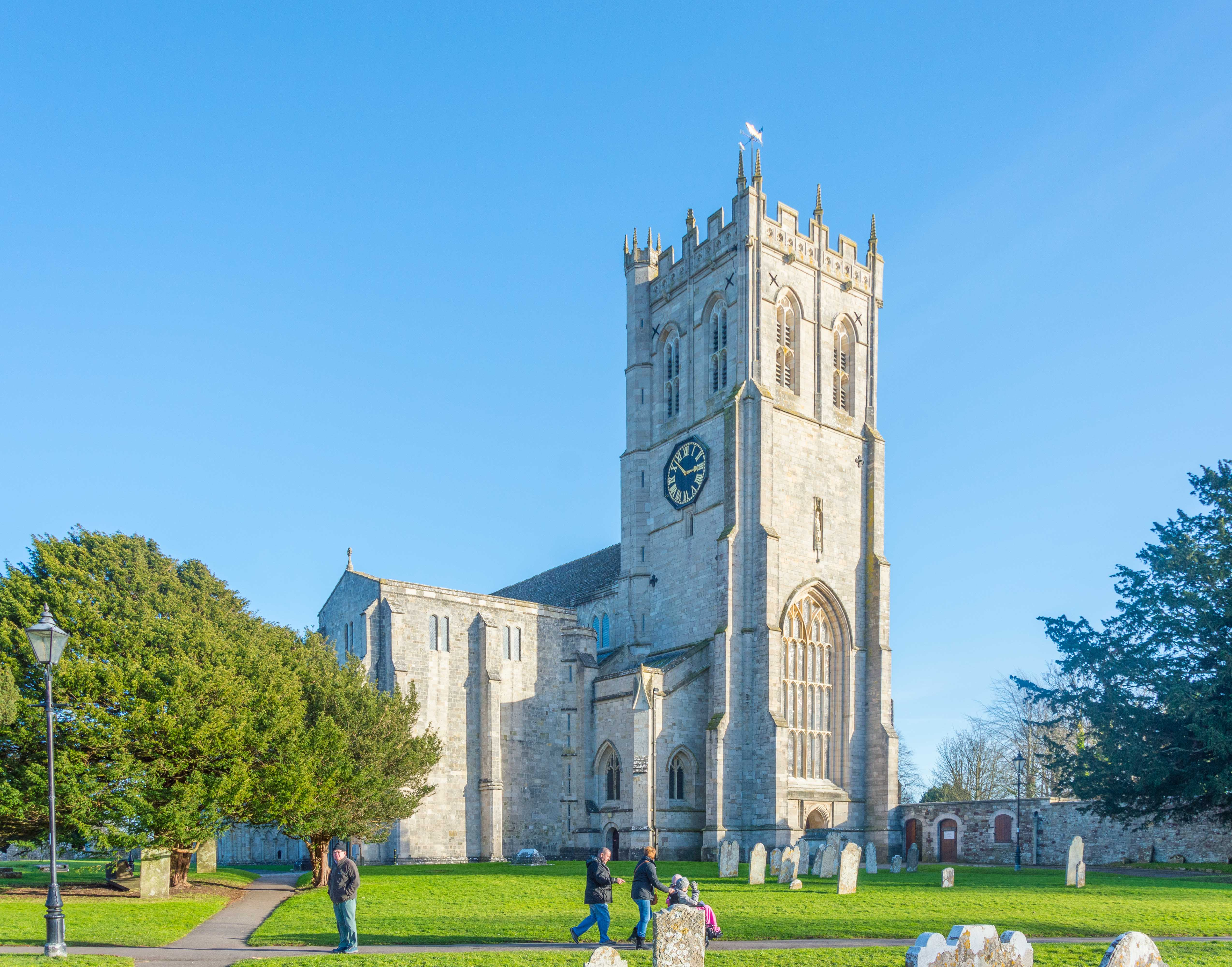 The huge size of the building only becomes obvious once one is the churchyard: 311ft Long and 120ft Tall.